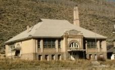 Abandoned Scofield Utah School House